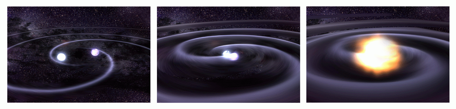 Three still pictures that show the white dwarfs circling each other and then colliding.